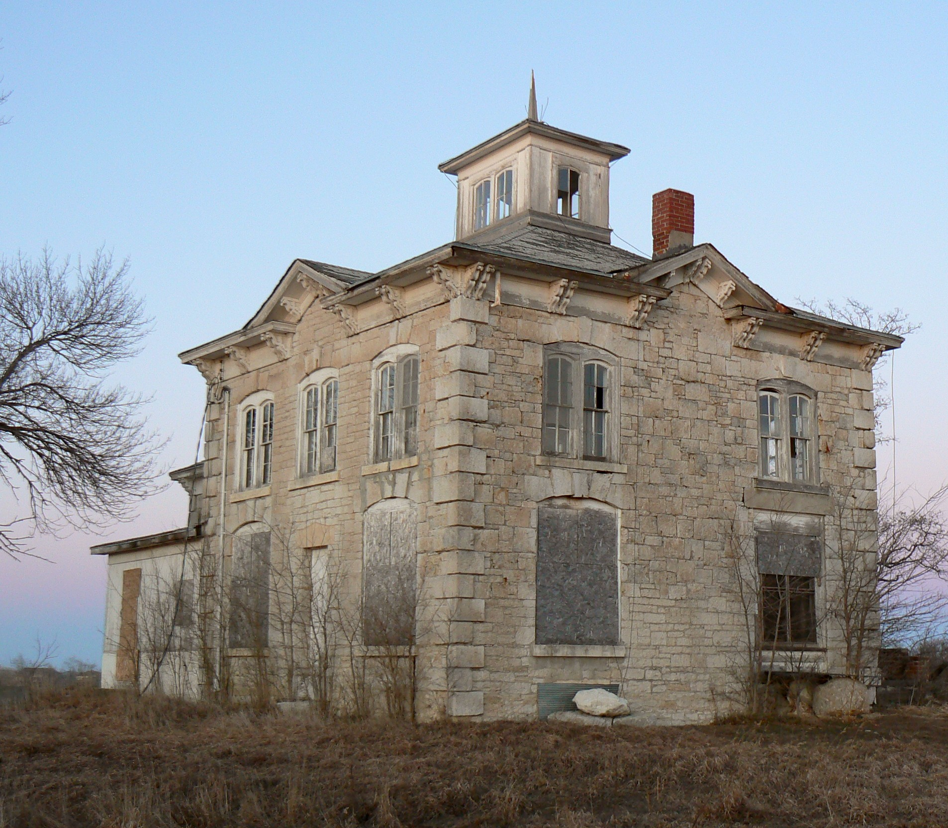 Israel Beetison House, Saunders County, Nebraska